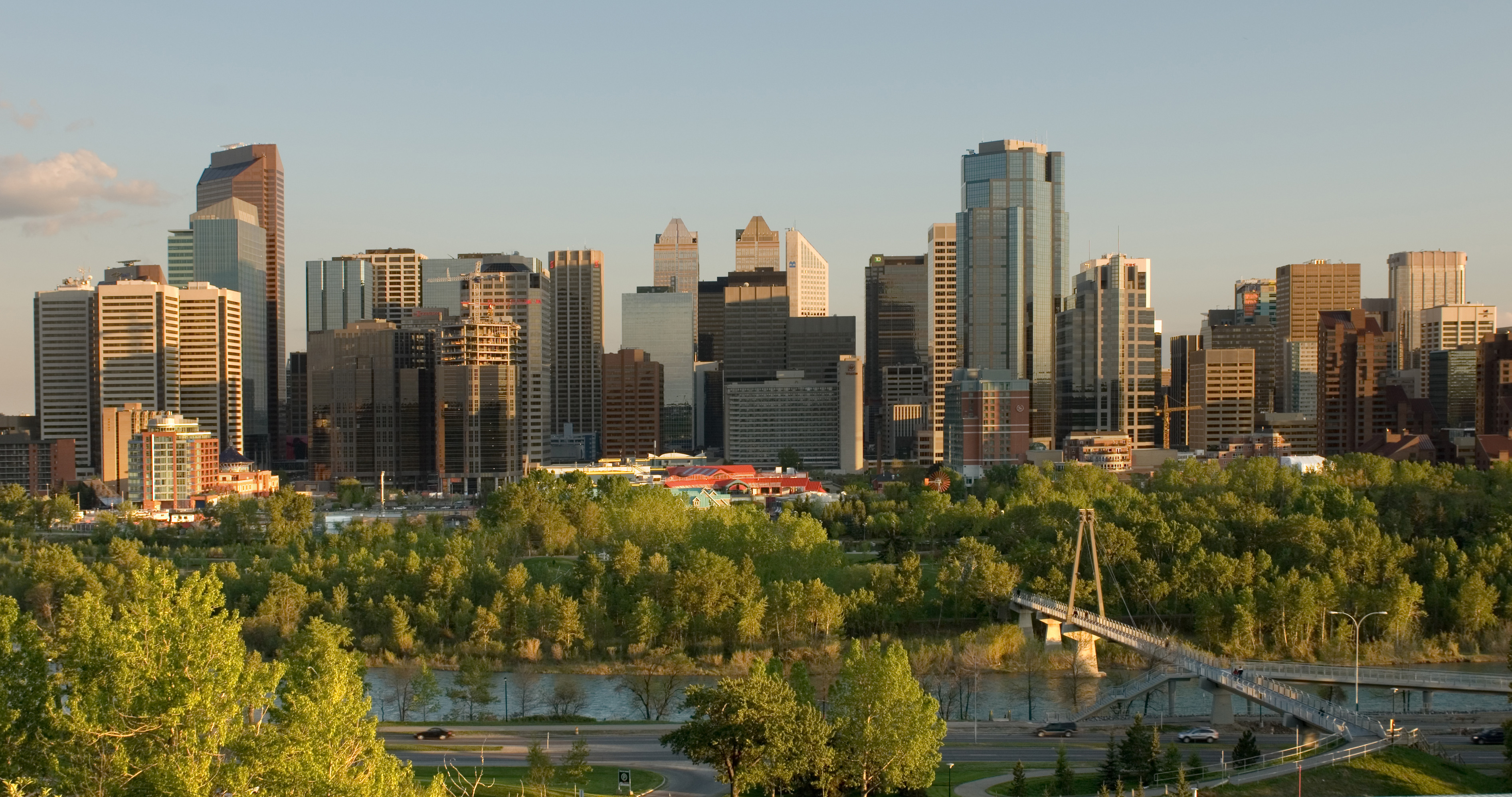 Calgary, Alberta Skyline from Crescent Road at Dusk. Photo by Chuck Szmurlo taken May 22, 2007 with a Nikon D200 and a Nikon 28-70 f2.8 lens